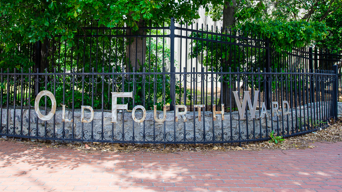 "Old Fourth Ward" lettering on Iron Rail Fence in Atlanta